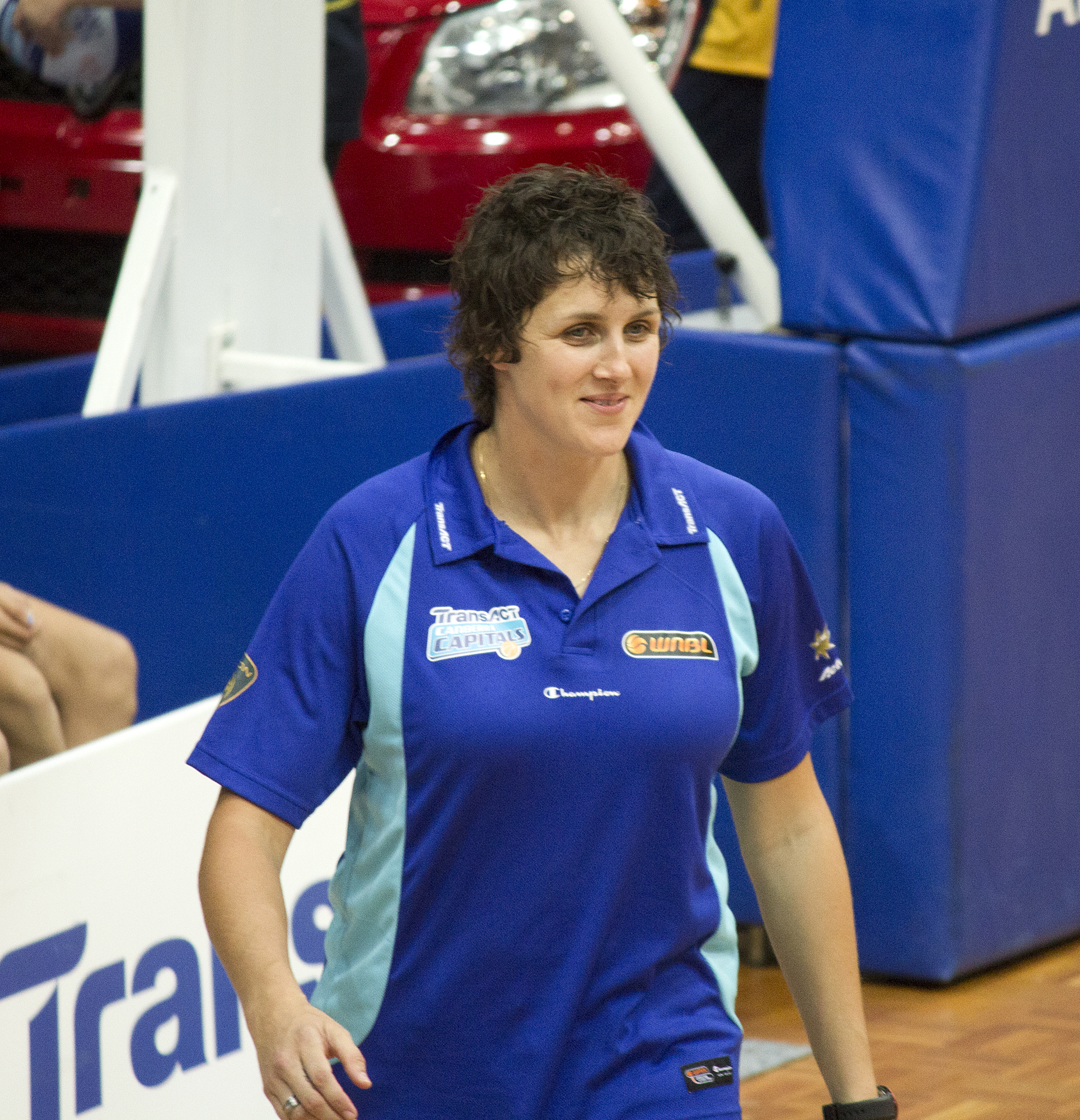 Natalie Porter at the Canberra Capitals vs Logan Thunder held at AIS Arena at the Australian Institute of Sport.